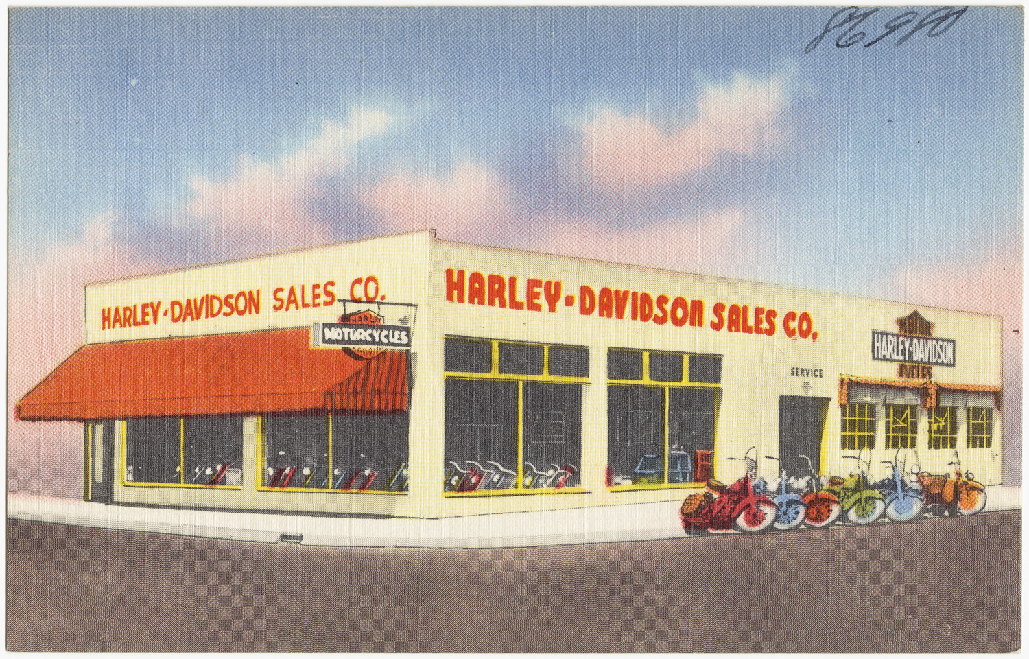 File name: 06_10_015593 Title: Harley-Davidson Sales Co. Created/Published: Nationwide Post Card Co., Arlington, Texas Date issued: 1930 - 1945 (approximate) Physical description: 1 print (postcard) : linen texture, color ; 3 1/2 x 5 1/2 in. Genre: Postcards Subjects: Commercial facilities Collection: The Tichnor Brothers Collection Location: Boston Public Library, Print Department Rights: No known restrictions Flickr data on 2011-08-17: Camera: Epson Exp10000XL10000 Tags: postcard, tichnor brothers, New Mexico License: CC BY 2.0 User: Boston Public Library